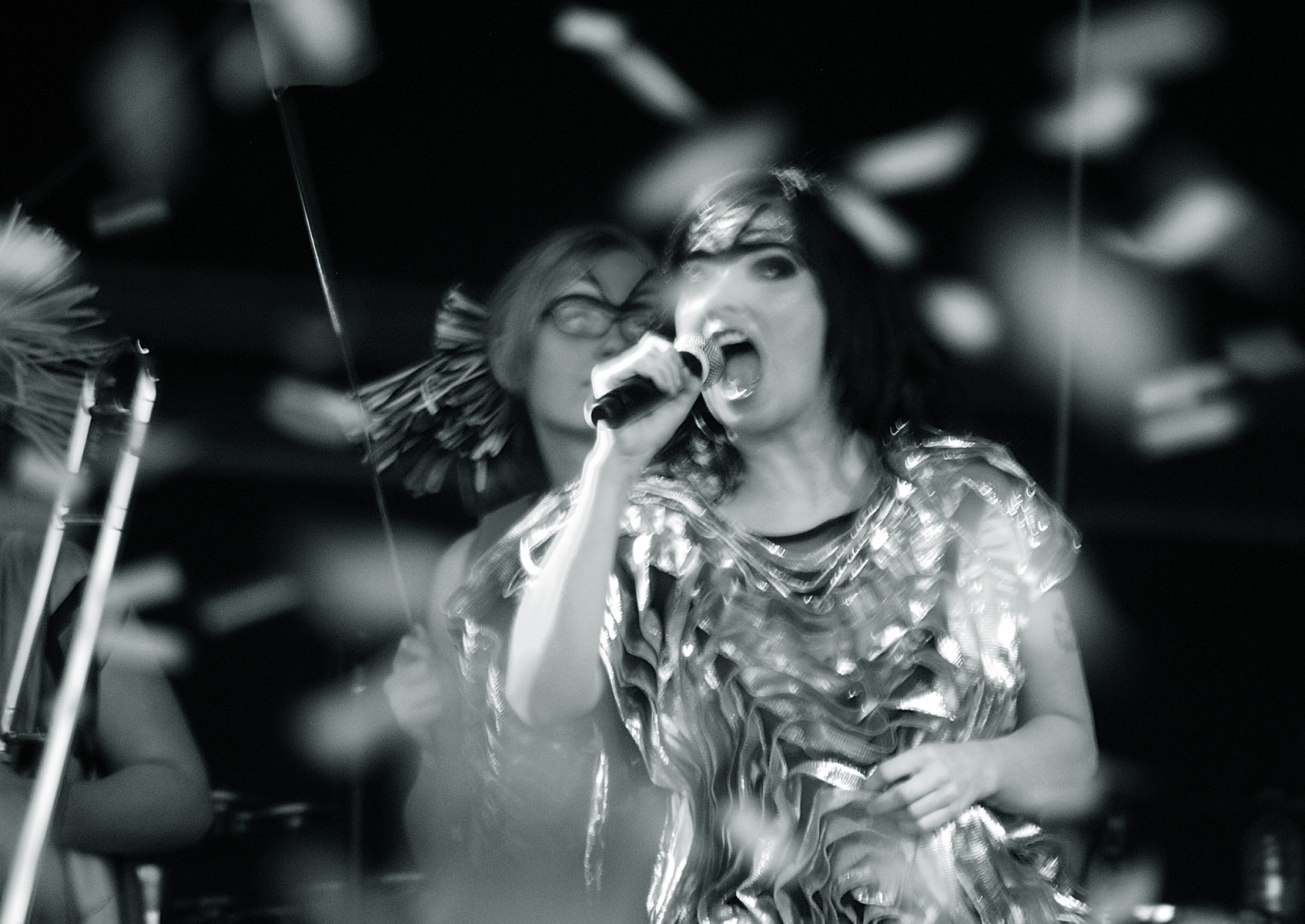 Björk at Big Day Out 2008, Melbourne Flemington Racecourse.